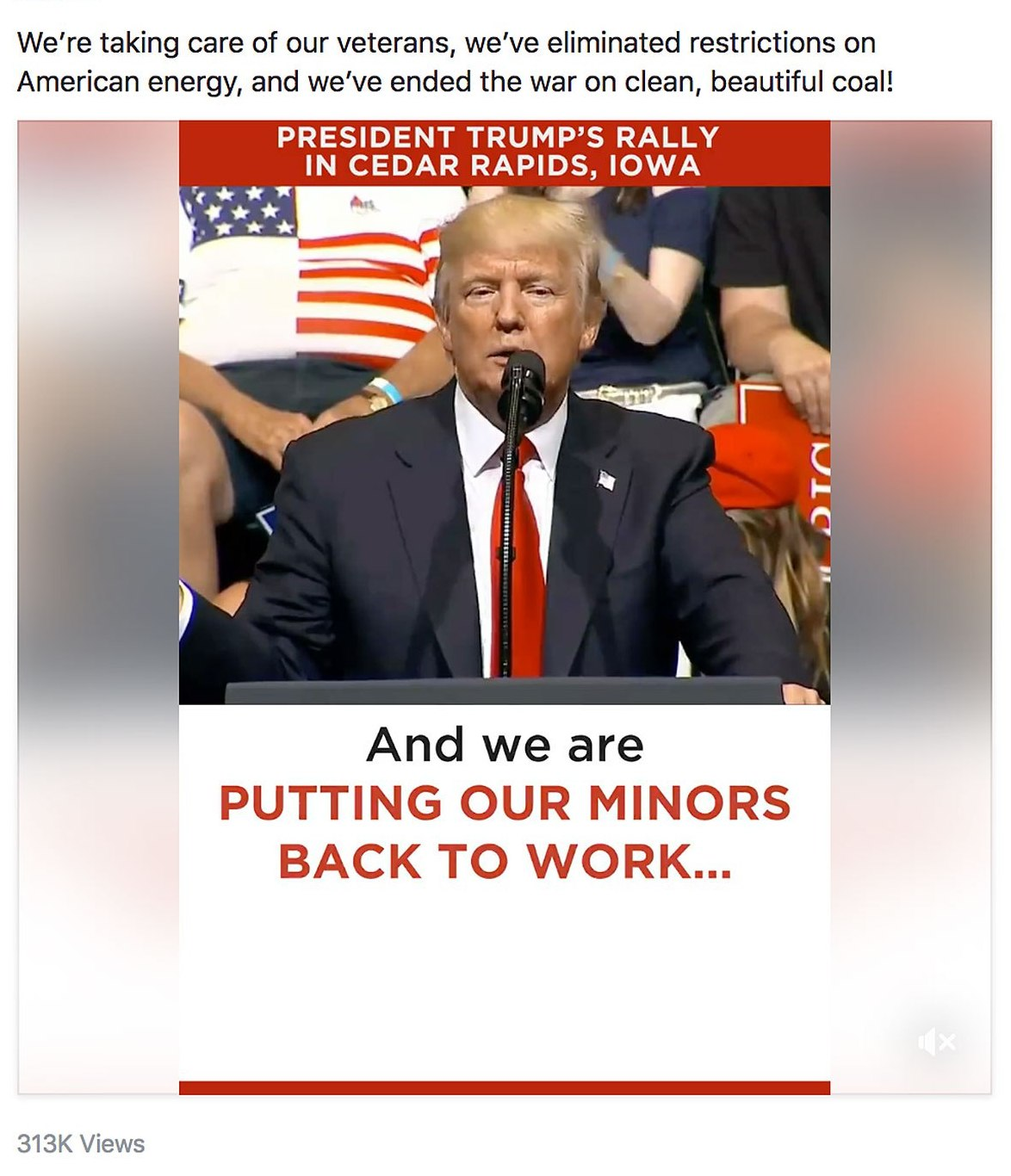 Typo in a video posted on Facebook by Donald Trump after one of his rallies